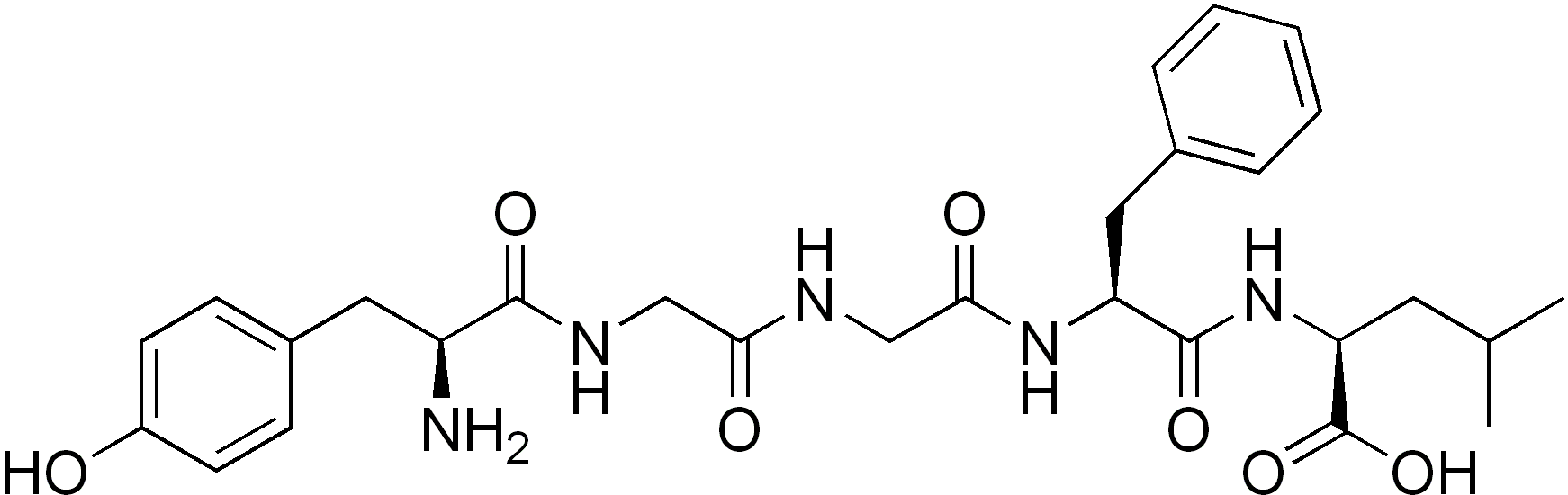 chemical structure of leu-enkaphalin